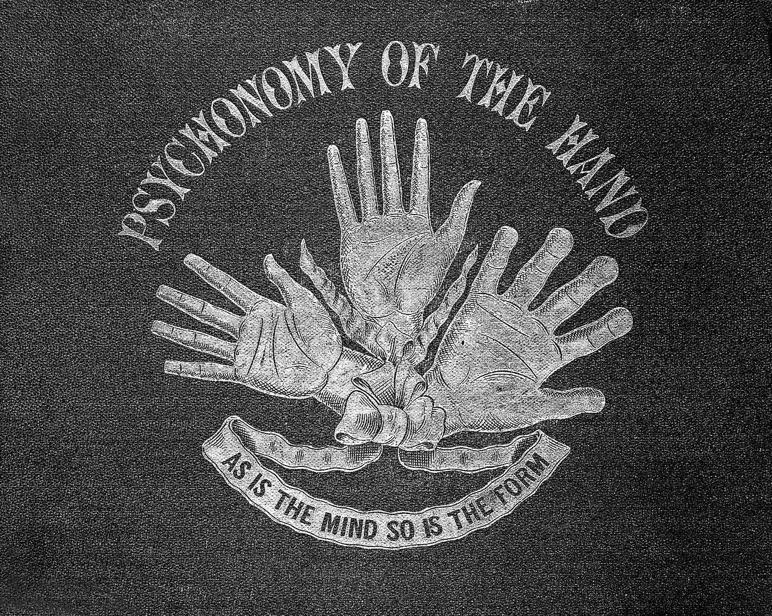 Gold stamped front cover: hands General Collections Keywords: Richard Beamish